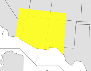 Map showing US Southwest as described by Reed & Meinig